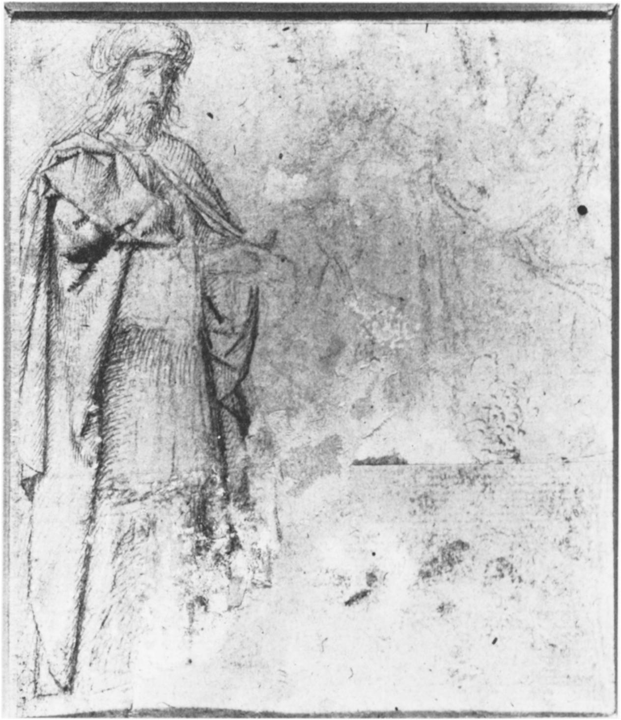 A Preparatory Sketch for Gerard David's Justice of Cambyses Panels in Bruges' Groeningemuseum. Verso of the first Sketch King Cambyses. Silverpoint on prepared paper. 12.8 by 9.2 cm. Städelsches Kunstinstitut, Frankfurt